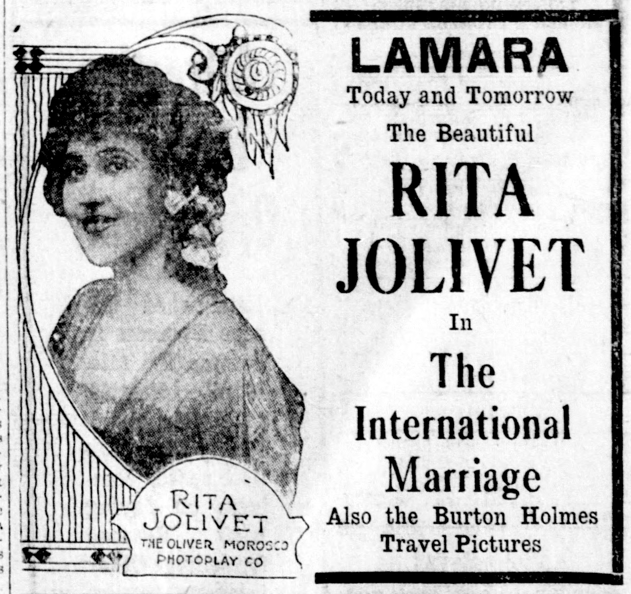 An International Marriage is a 1916 American comedy silent film directed by Frank Lloyd and written by George Broadhurst. This is a newspaper advert for the film.